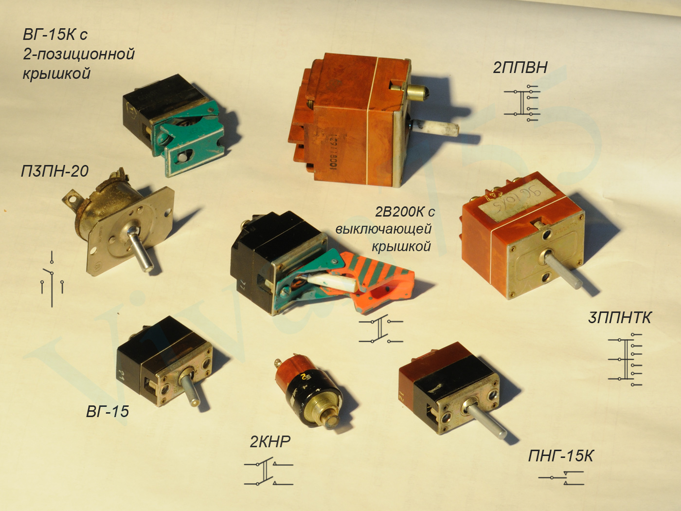 Russian aviation switches VG-15K, 2PPVN, P3PN-20, 2V200K, 3PPNTK, VG-15, 2KNR, PNG-15K